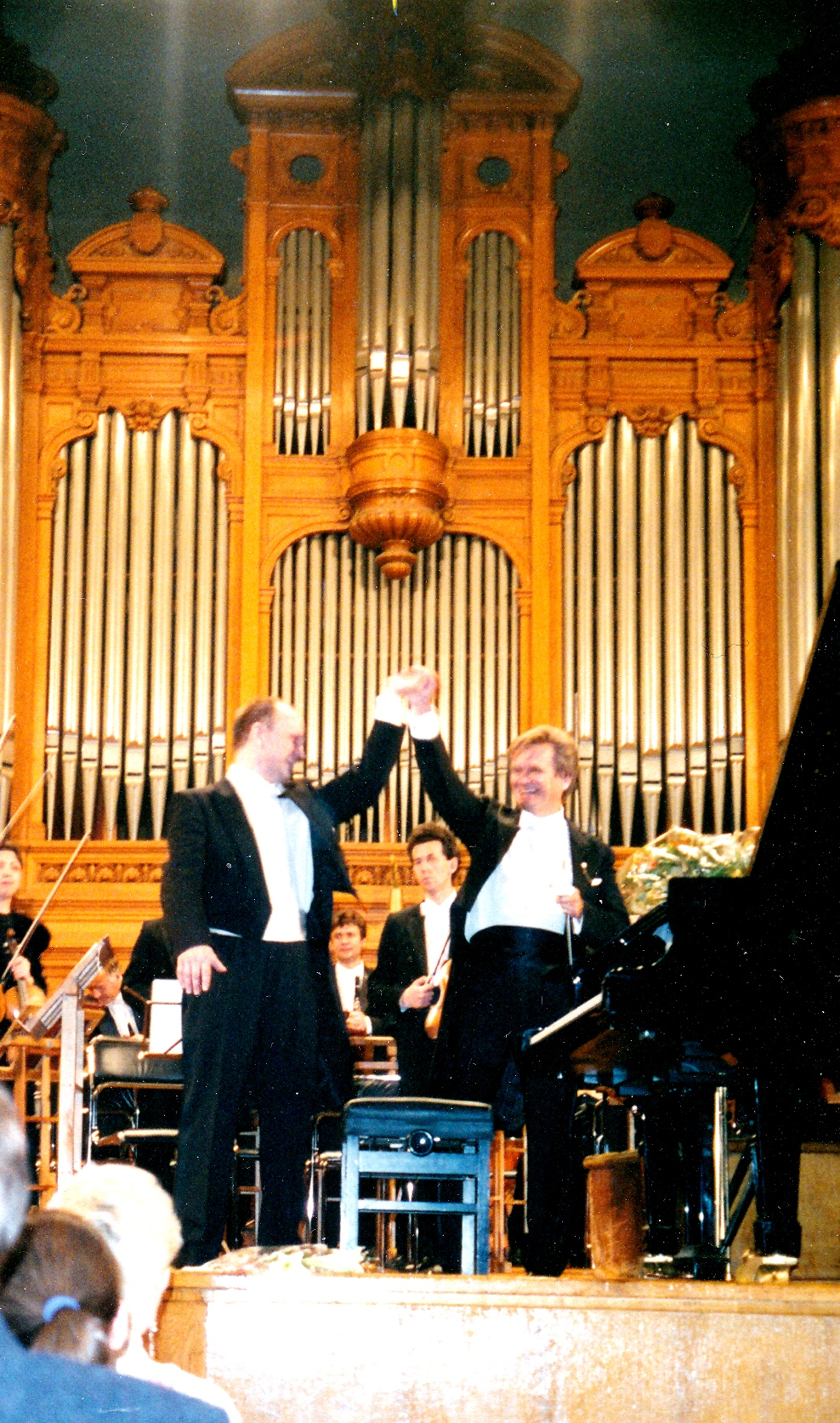 Andrej Hoteev & Vladimir Fedoseyev Moskow 1996 Tchaikovsky -the 4 piano concertos -World premiere.